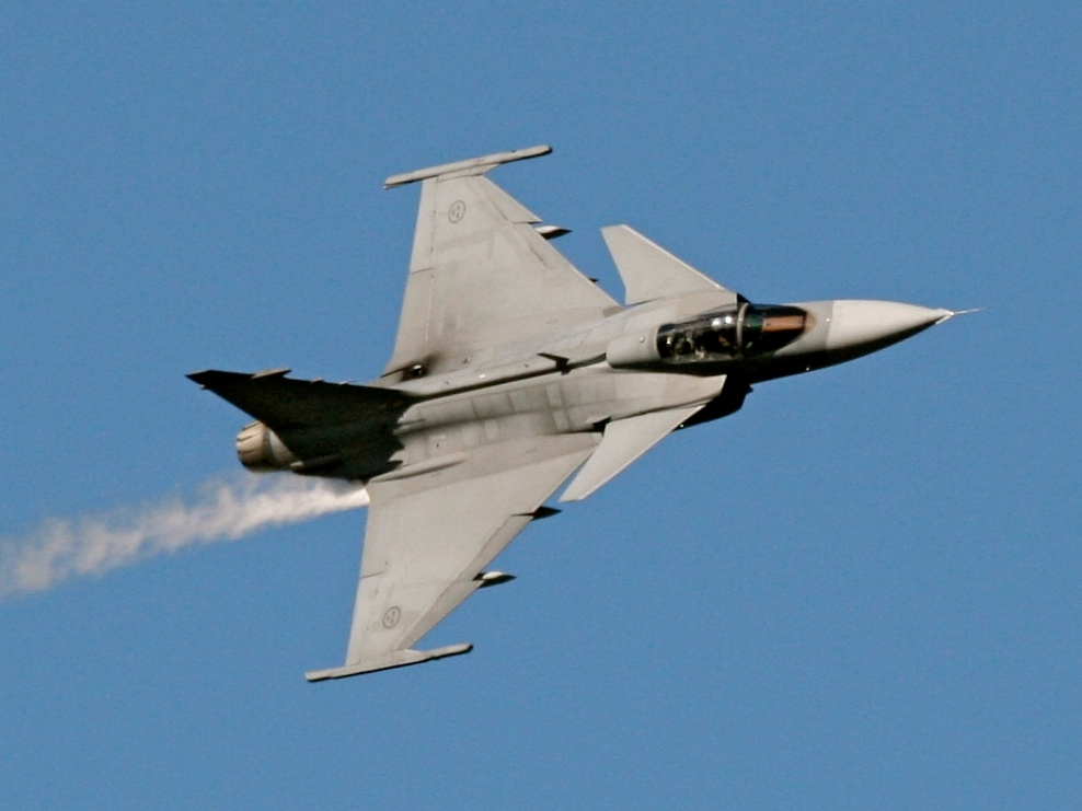 JAS Gripen. Rygge Air Show 2007.